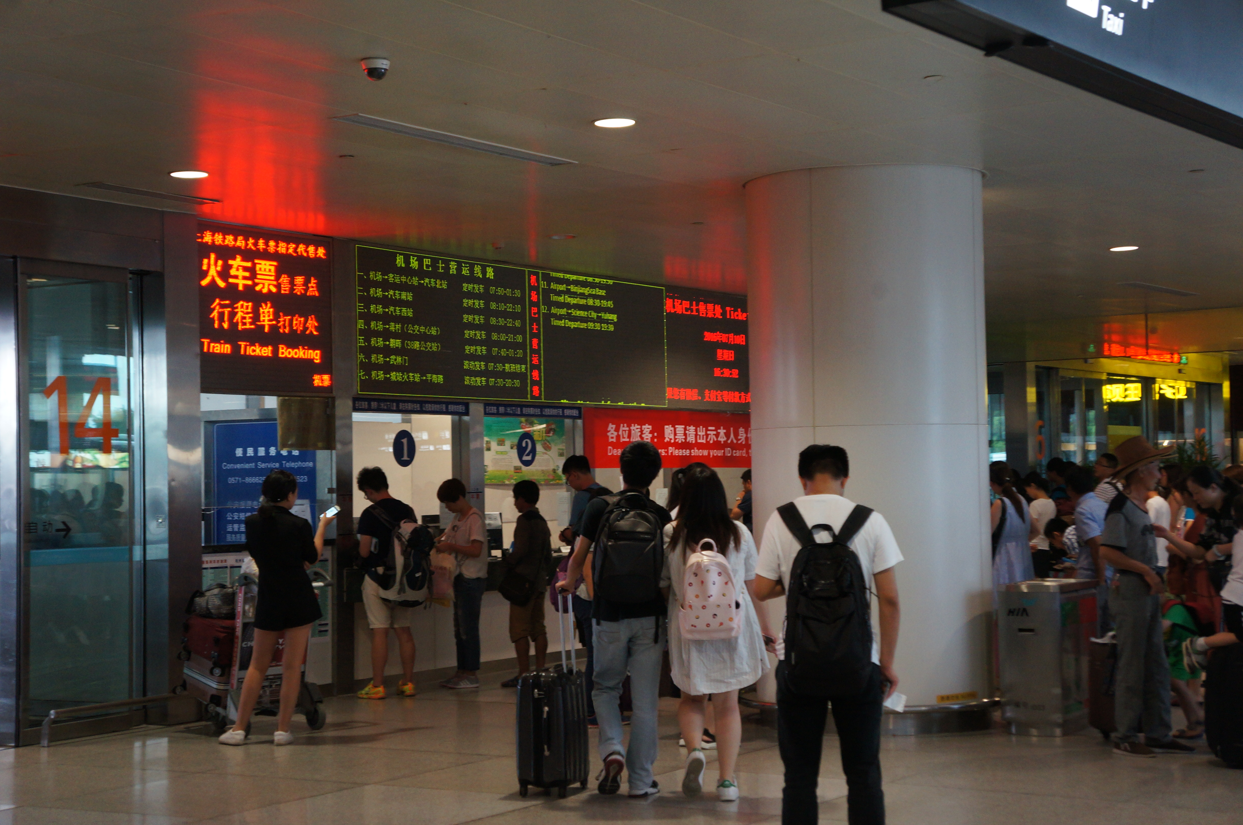 201607 Transterring ticketing area at HGH T3